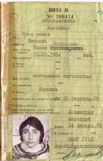 This is the Soviet exit Visa of type 2. It was granted for those who received permission to leave the USSR forever. Not all who wanted receive such Visas.